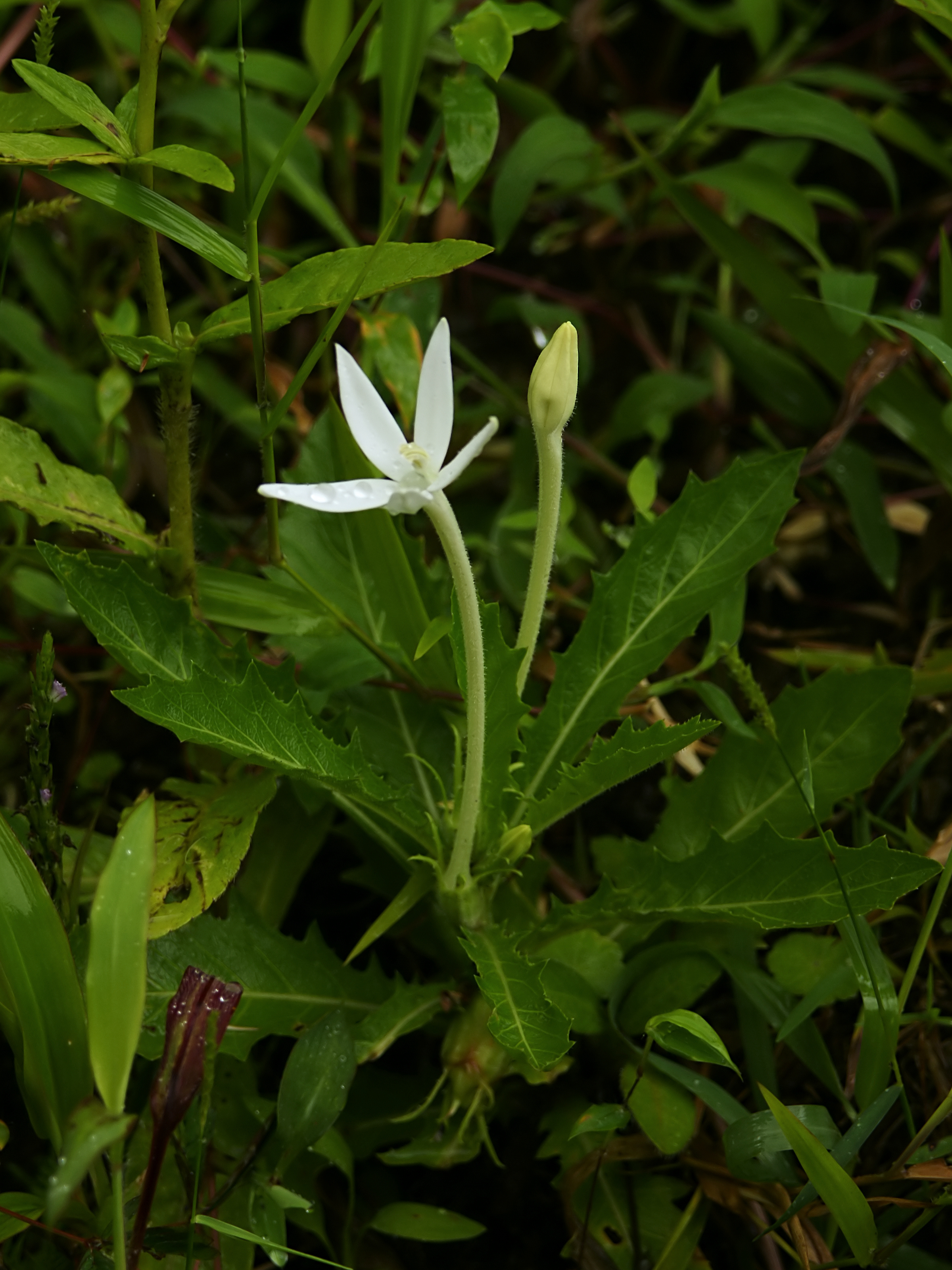 Star of Bethlehem close to Volcano Arenal, Costa Rica